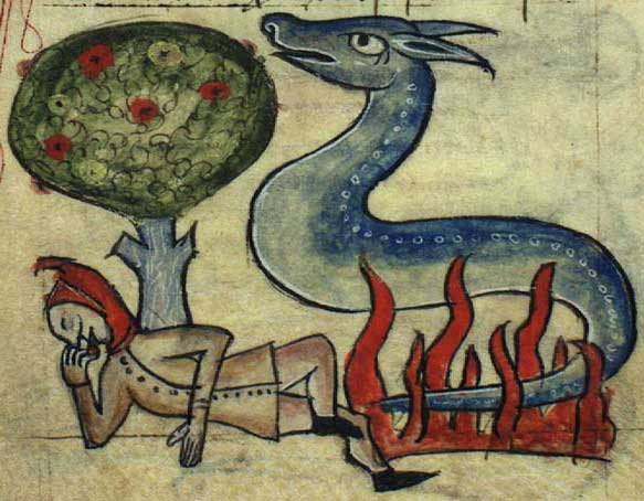 Emblem of salamander that lives in fire